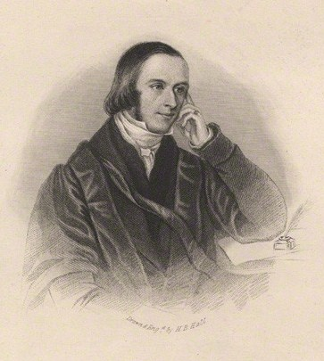 Portrait of Robert Aris Willmott (1809 – 1863), English cleric and author.